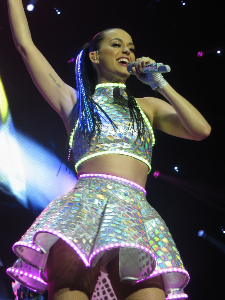 Katy Perry performing "Roar" at SEE Hydro in Glasgow in May 17, 2014.